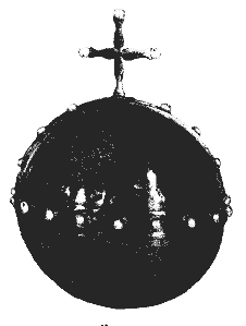 The Royal apple from the Treasury, Stockholm castle.